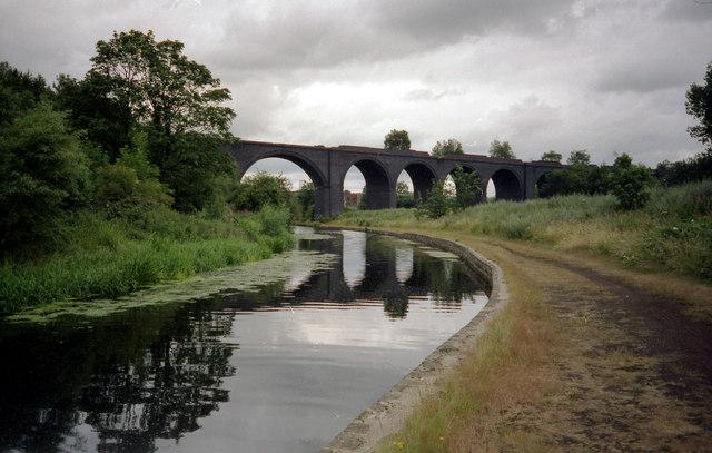 Ex-Midland Railway viaduct over the Huddersfield Broad Canal This viaduct represents an interesting, though in the end futile, attempt by the Midland Railway to reach Huddersfield and the West Riding hinterland. It only carried a single line, and while it did reach Huddersfield, the Midland were never able to build a station there or even run passenger trains over their line at all; at the Huddersfield end, all it ever connected with was the gasworks!